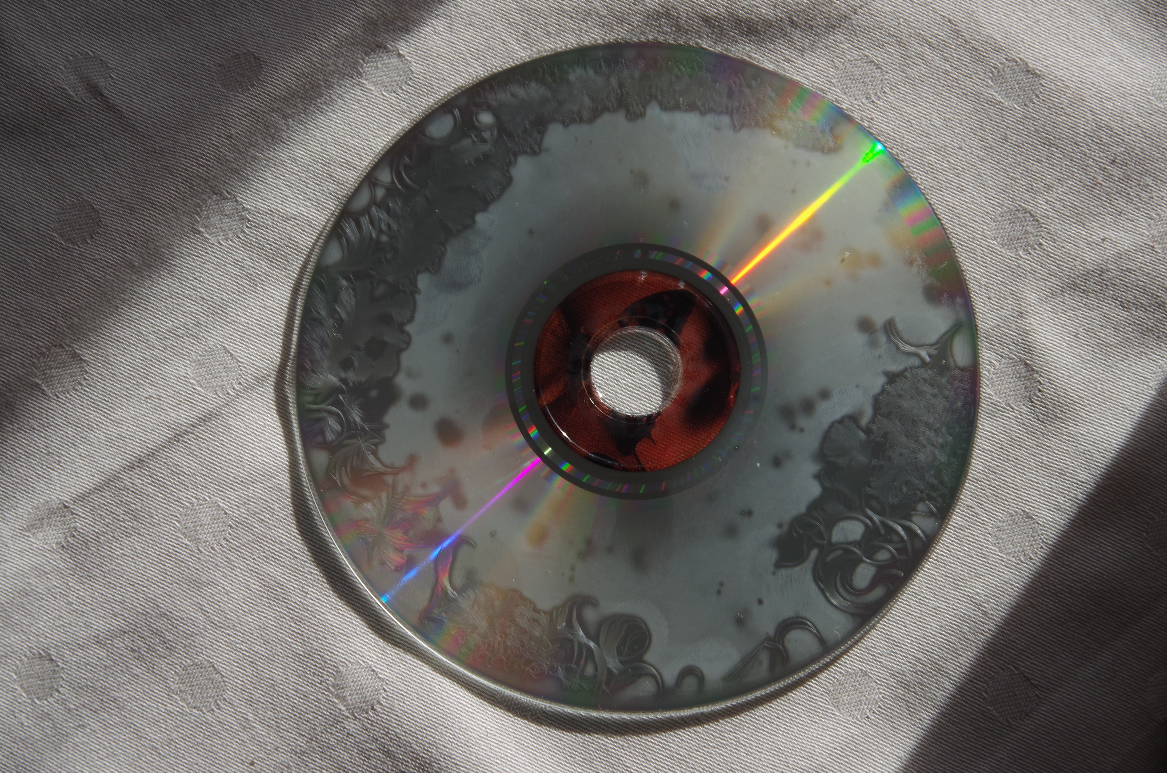 Time destroys CD, interesting structure